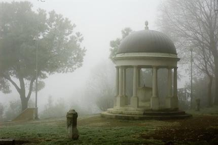 Parco di Bacco, Rezzato